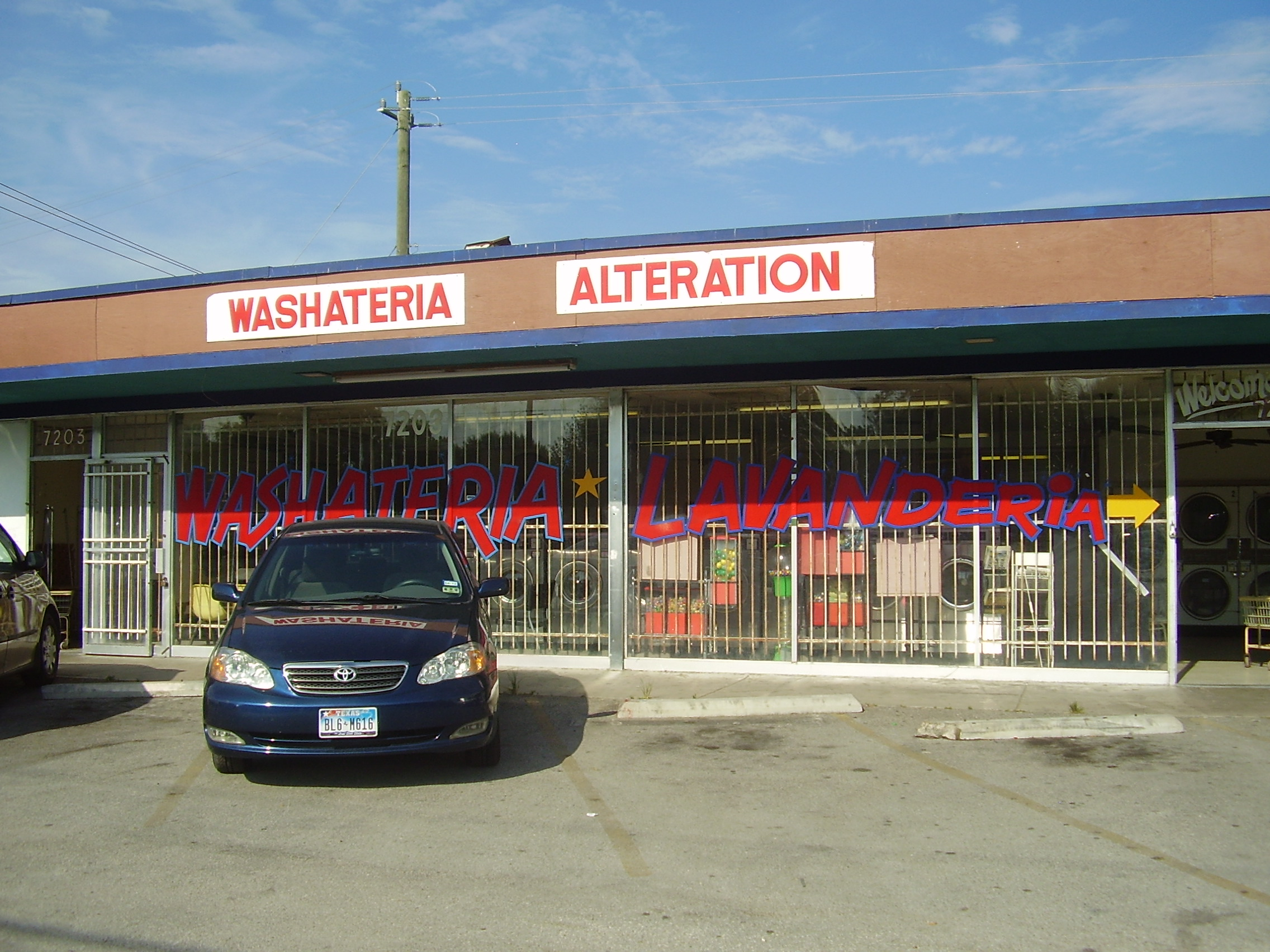 A washateria in Houston